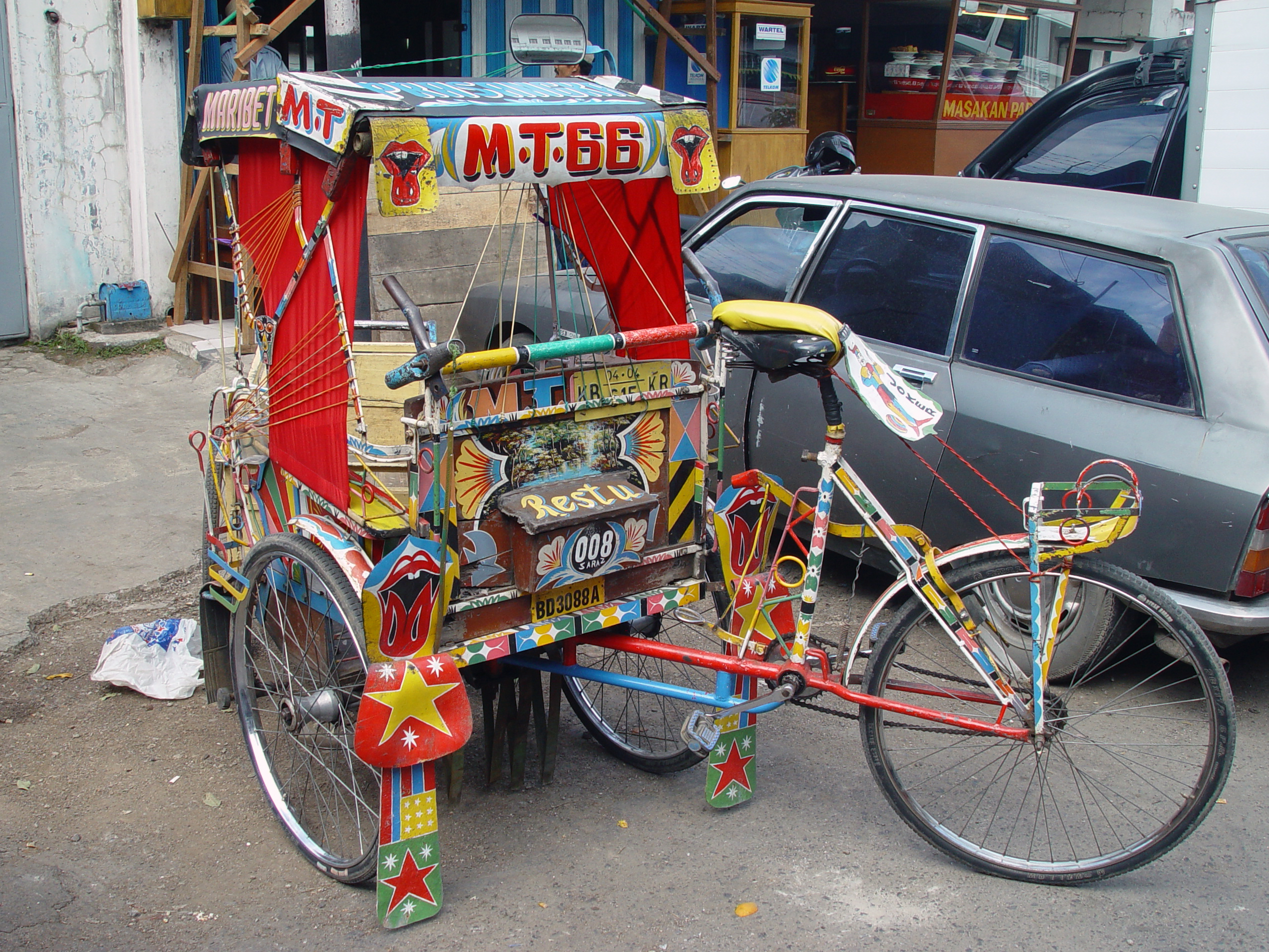 Becak, Bandung Indonesia.